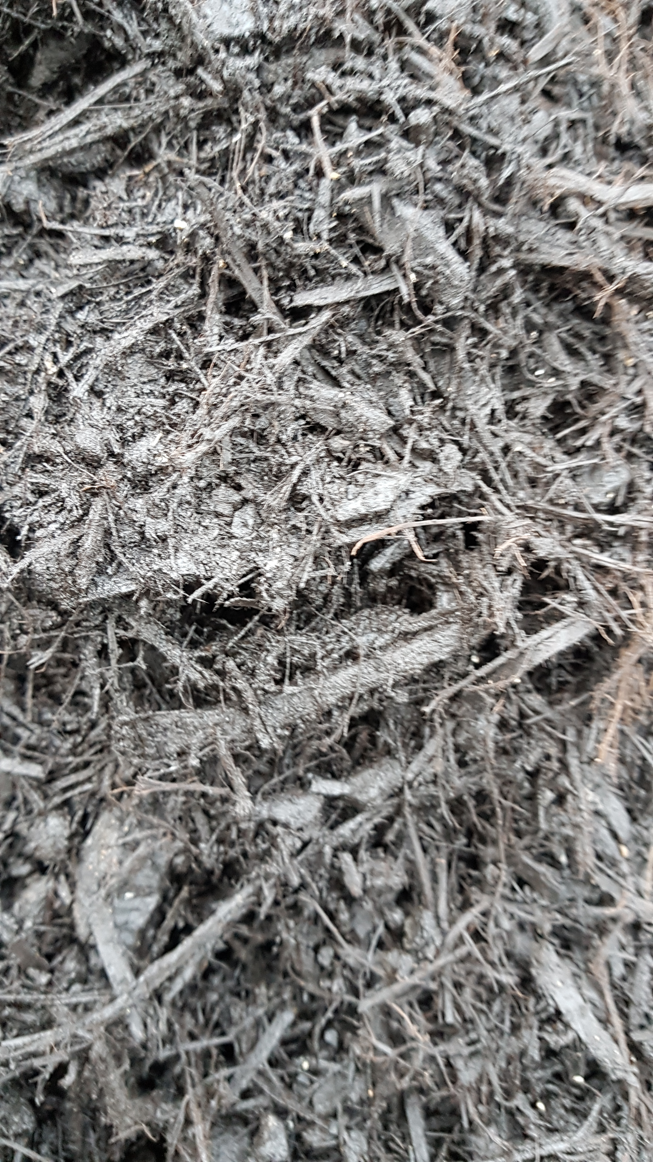 View of Xylit